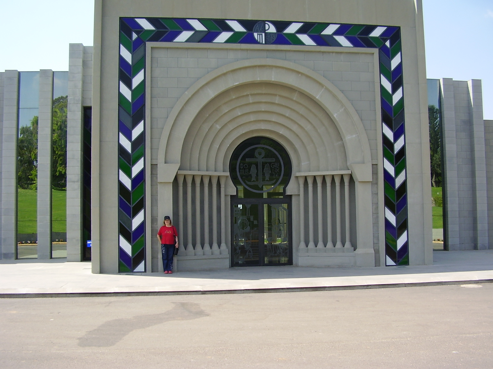 entrance to \"domus galilea\"